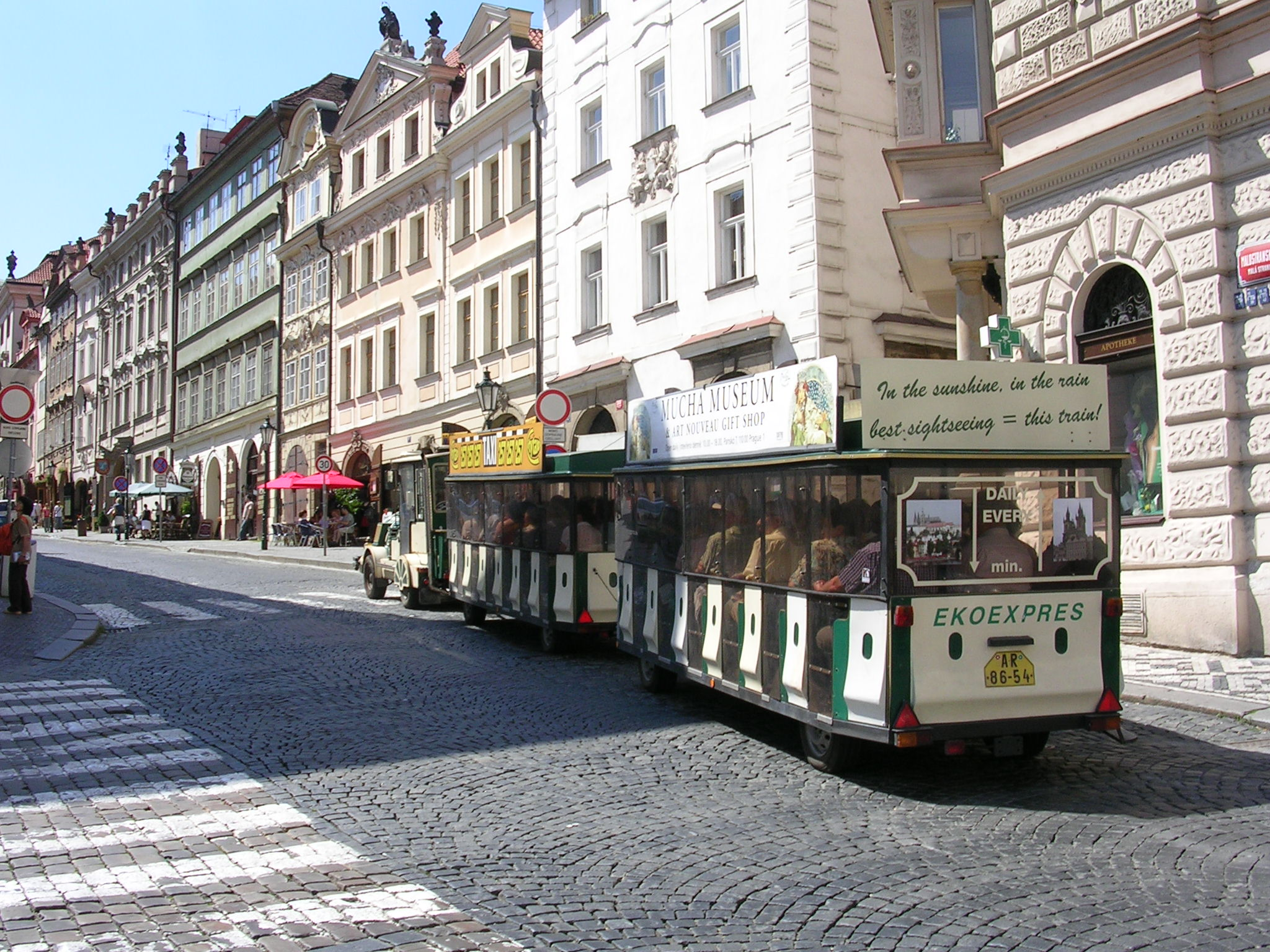 Trackless train in Prague, Malá Strana. - OpenStreetMap(Info)